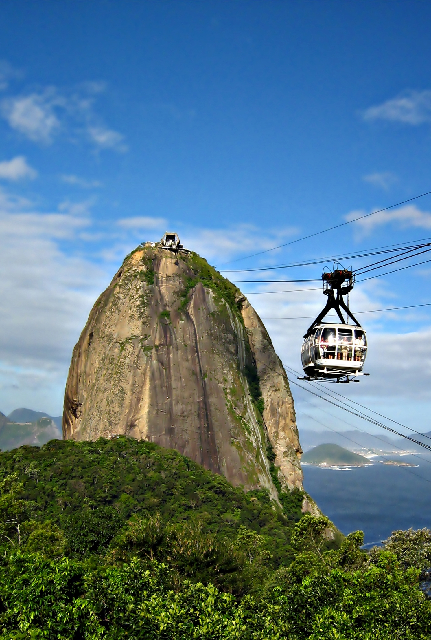 Cablecar going to the Sugarloaf Mountain, Rio de Janeiro, Brazil.